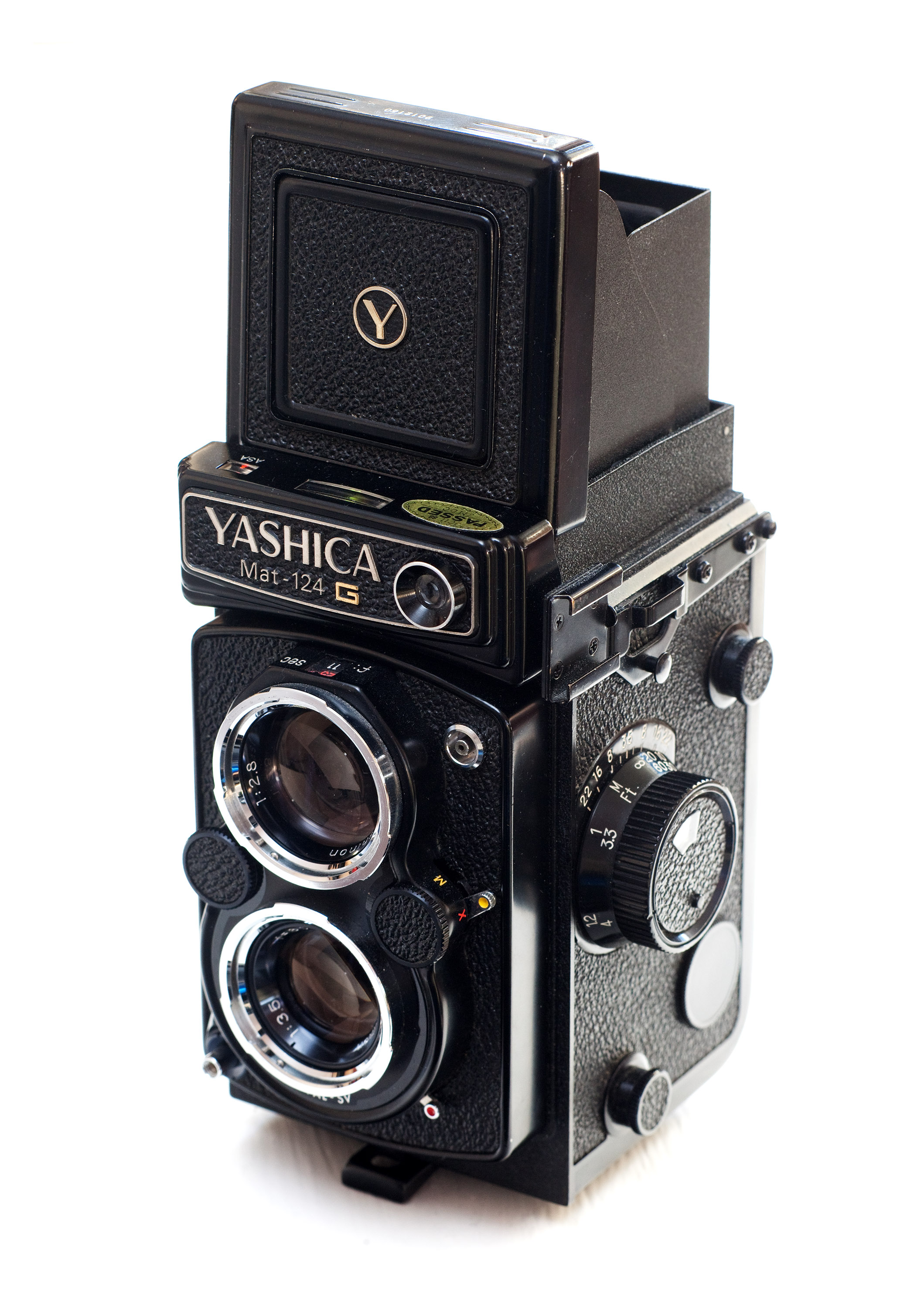 A Yashica Mat 124G twin-lens reflex camera